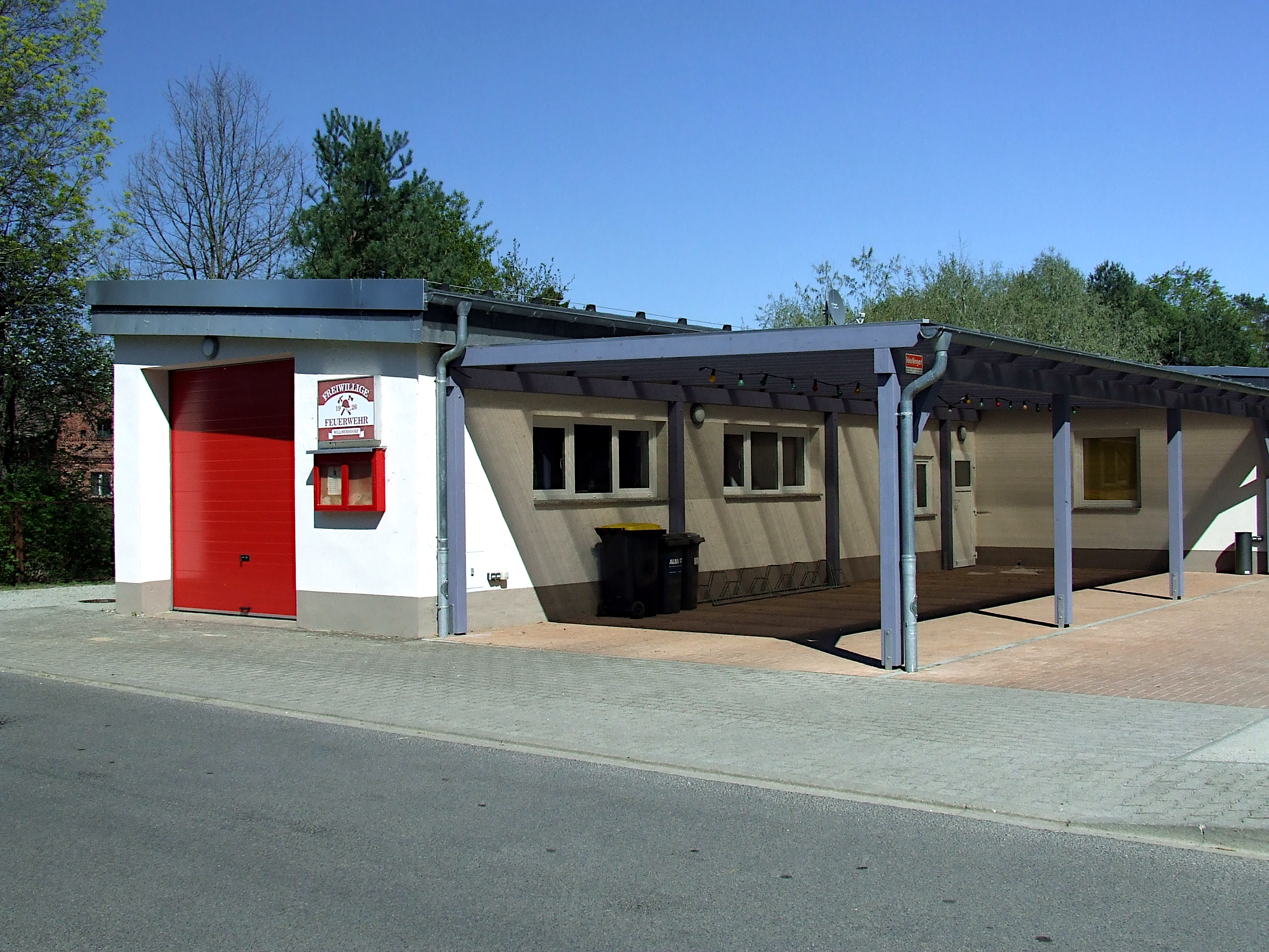 Voluntary fire department Cottbus-Willmersdorf, postal address Dorfstraße 4.